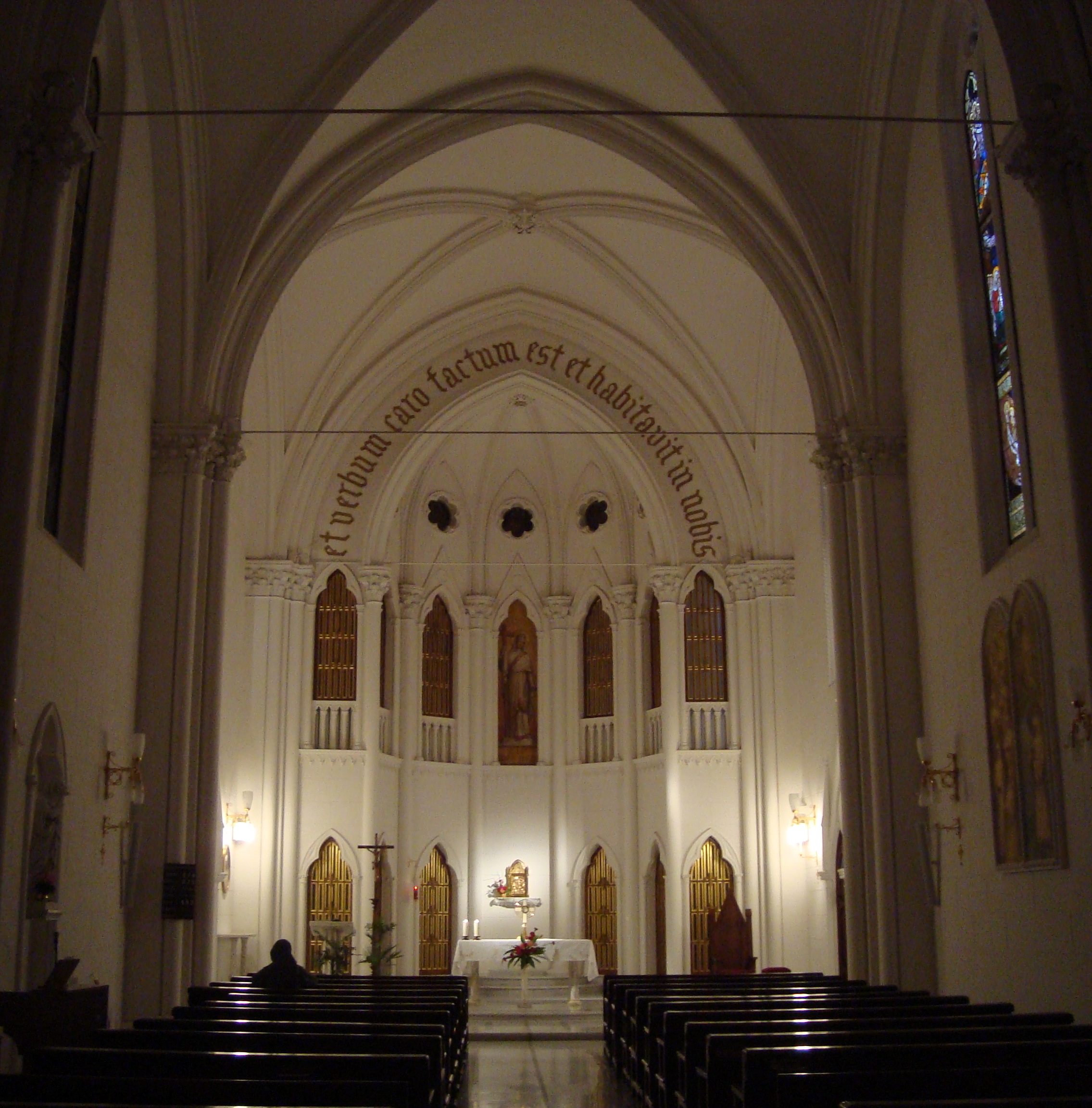 Interior view of the Chapel Sant'Elena in Rome